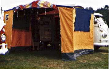 A split-screen VW bus with a freestanding Westfalia "Big Top" tent.